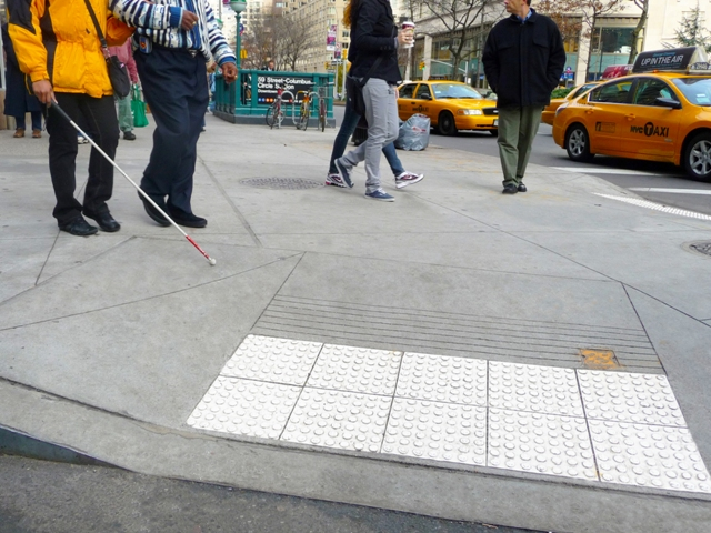 Step-Safe color contrast truncated domes installation on a street curb in New York City